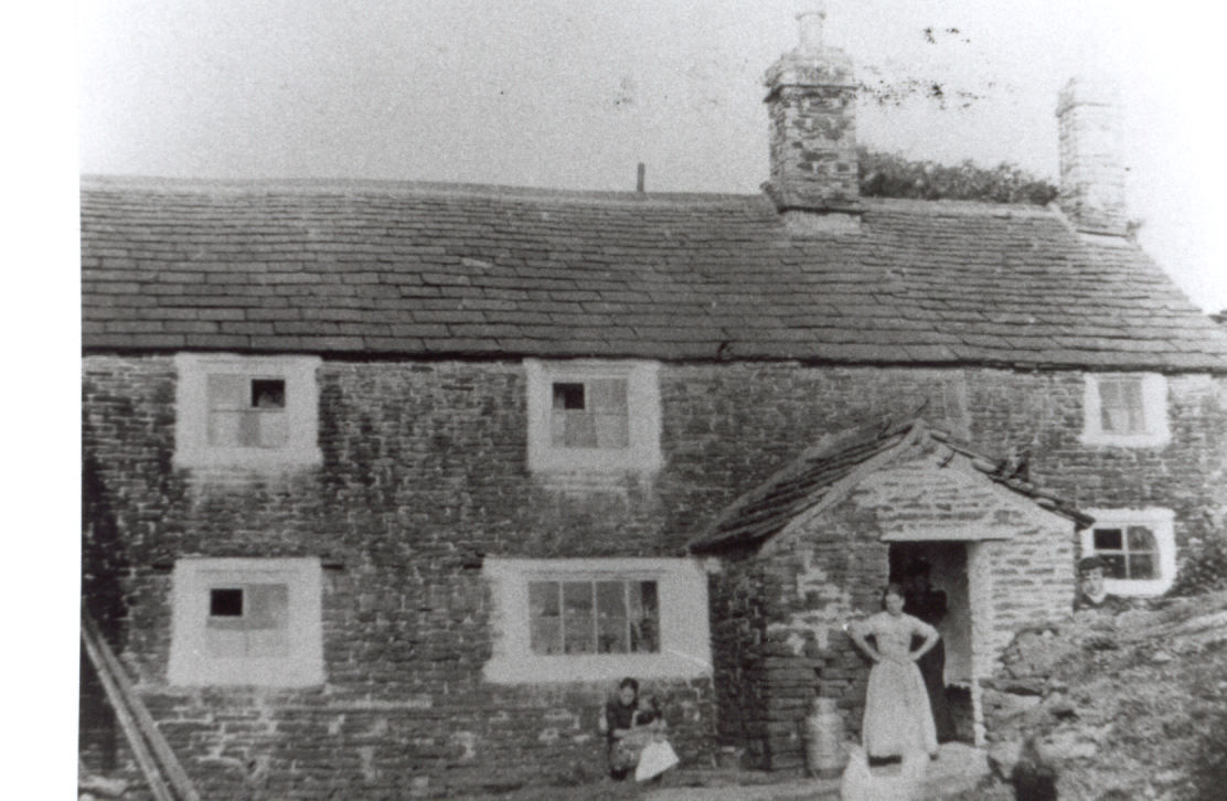 Old Rachel's, Anglezarke, Lancashire, England